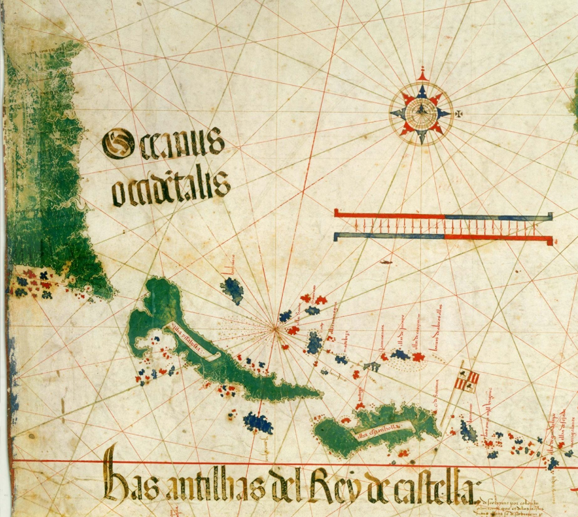 Top left corner section of 1502 Cantino map, which shows US East Coast, Cuba, Hispanola, Puerto Rico and other Caribbean Islands